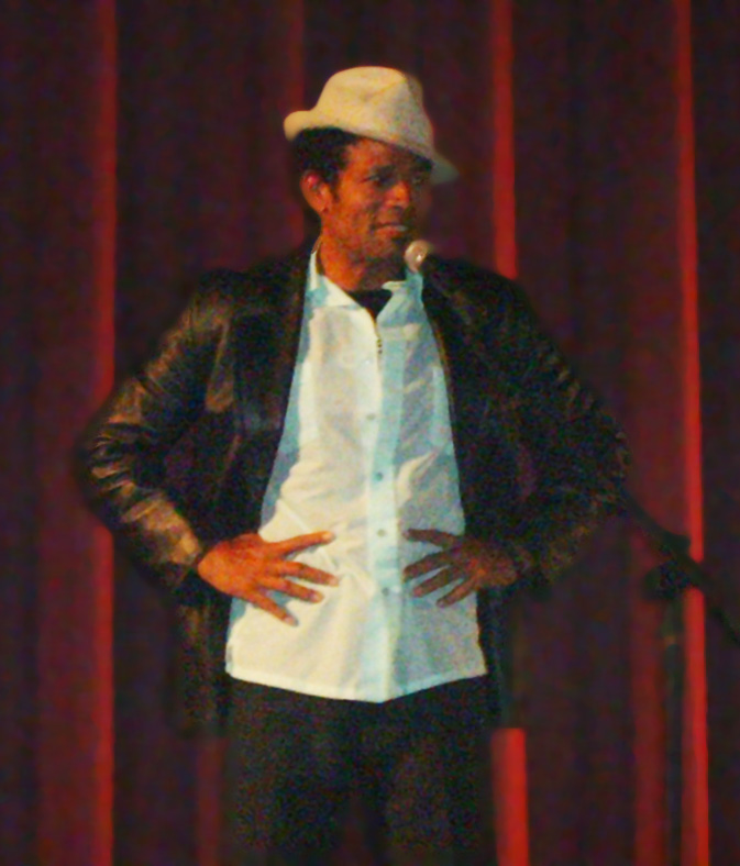 Mario Van Peebles was at the Ritzy, cinema in Brixton earlier this year promoting his movie Badasss! It was shown as part of the Human Rights Watch film festival.